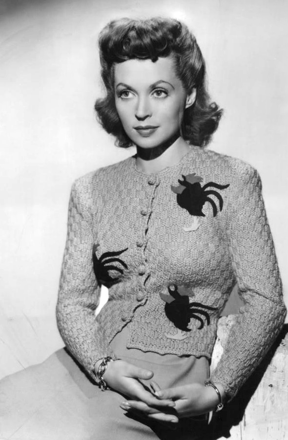 Publicity photo of Lilli Palmer from a Broadway appearance.